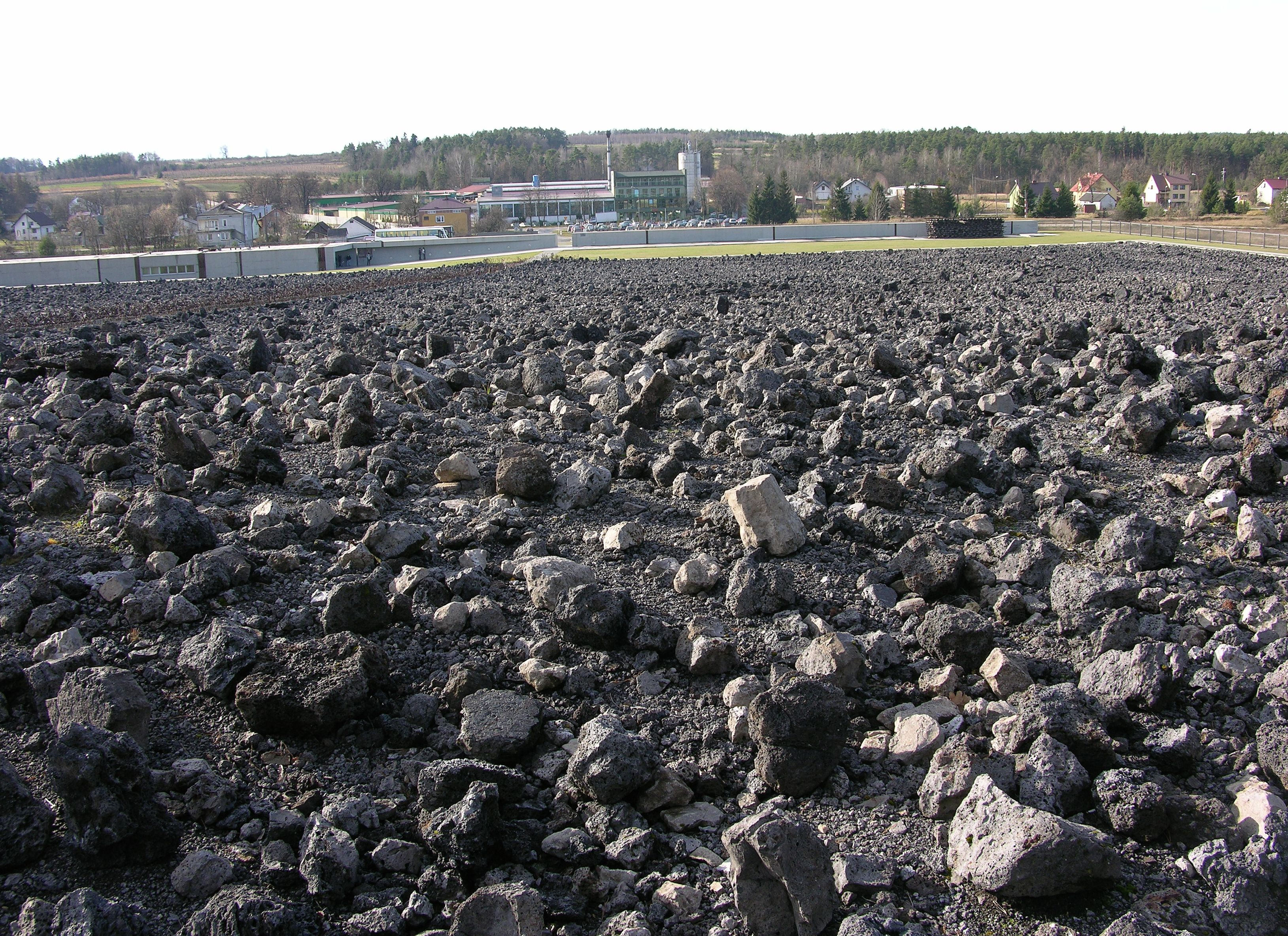 Mausoleum at the former Belżec death camp